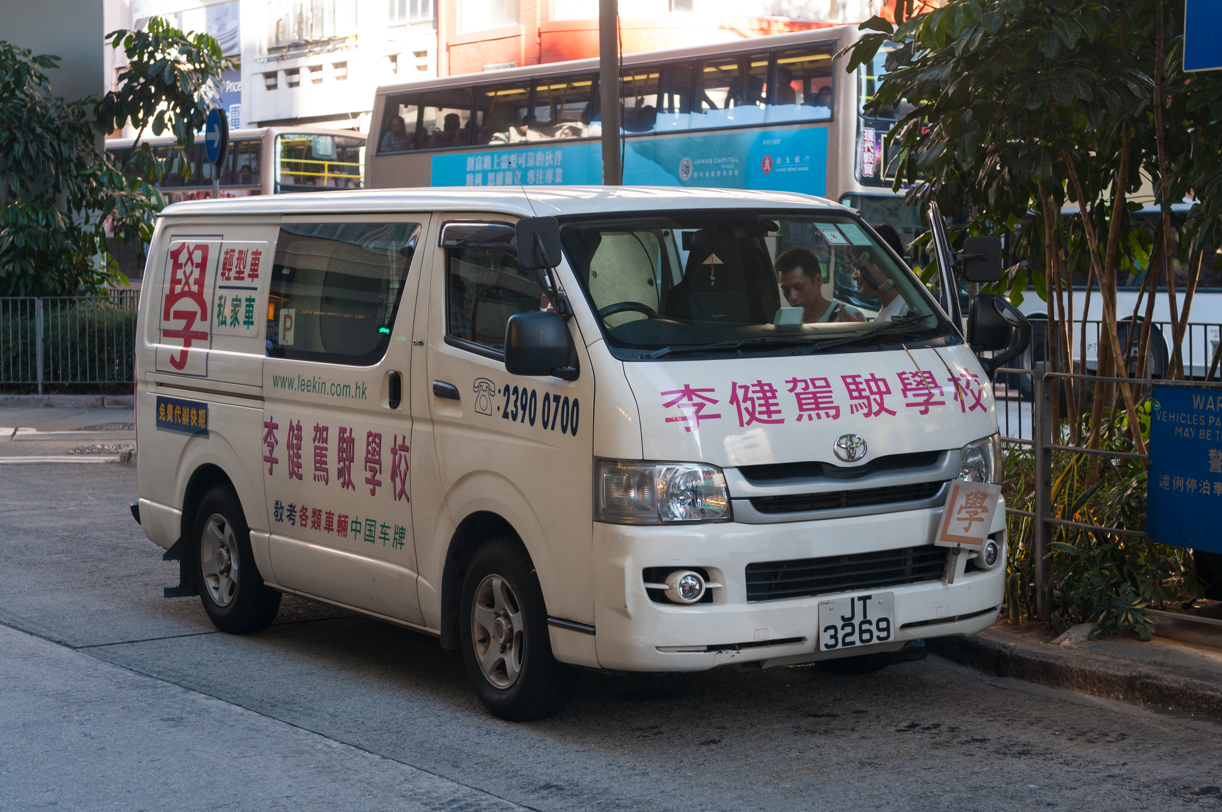 Toyota Hiace H200 Driving School in Hong Kong